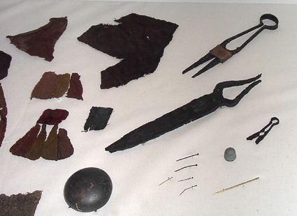 Fragments of cloth, scissors and needles from the Middle Ages, found in Lödöse, Sweden